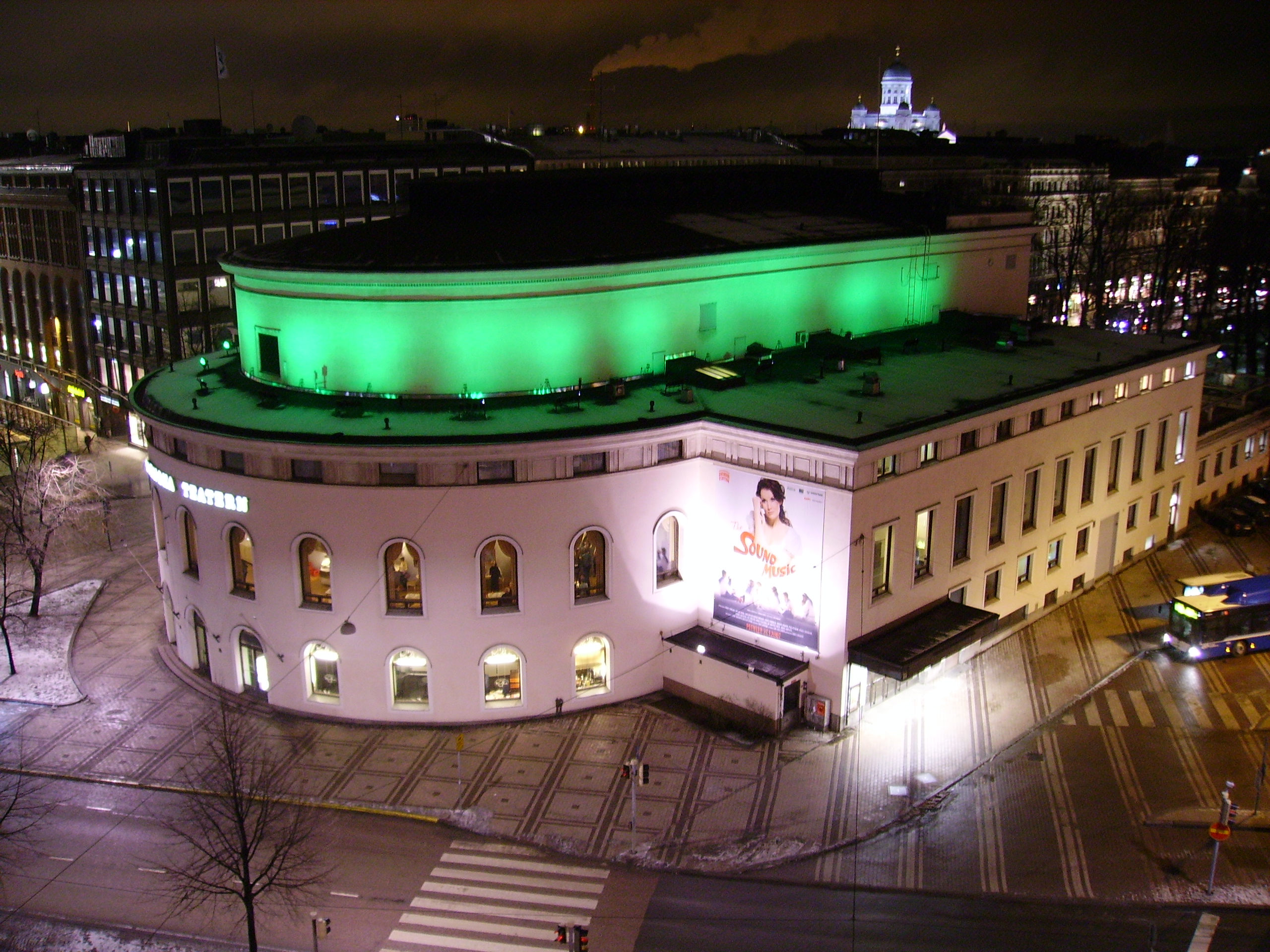 Svenska Teatern ("The Swedish Theatre") in Helsinki by night. Built 1866. Architect: Nikolai Benois. Taken from the balcony of Reaktor Innovations at Mannerheimintie 2.